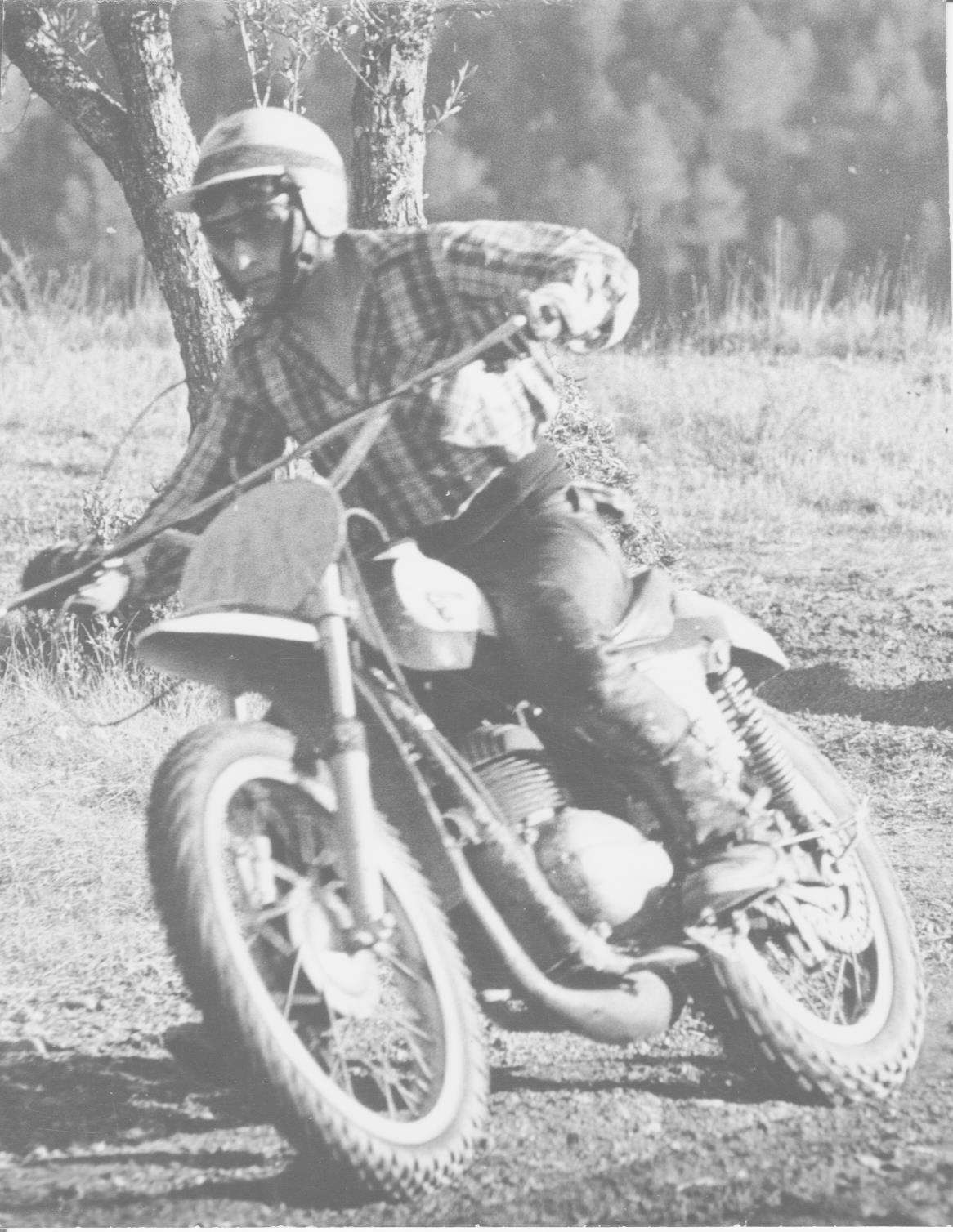 Domingo Gris testing a prototype of the Bultaco El Bandido at Bassella in 1967